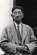 Terada Torahiko